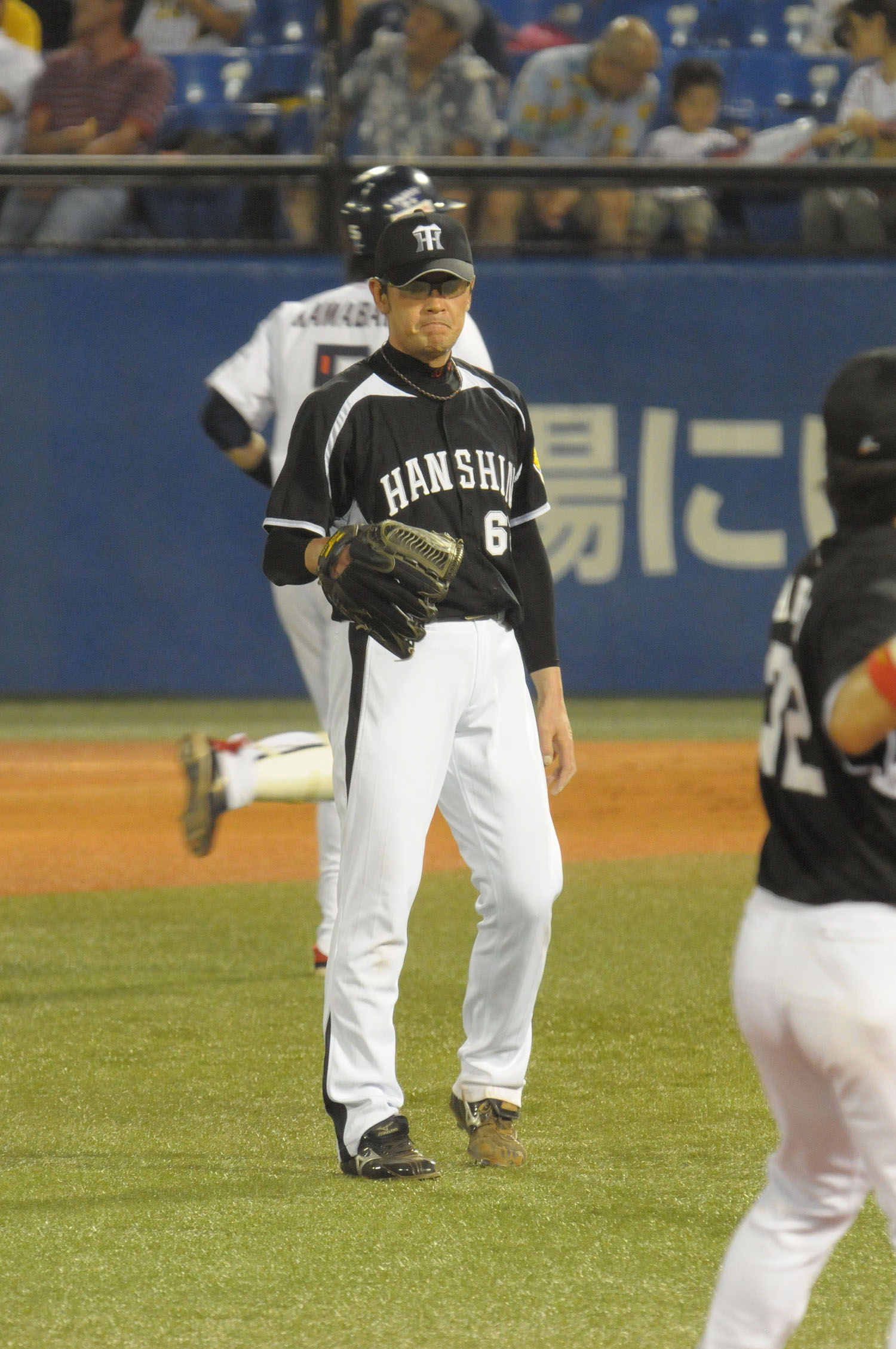 Kosuke Kato, pitcher of the Hanshin Tigers, at Meiji Jingu Stadium.